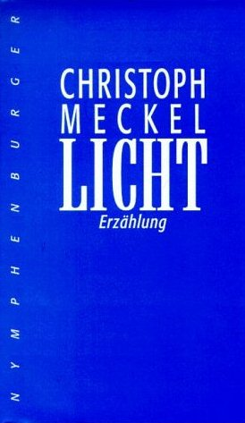 Bookcover of "Licht, Erzählung" by Christoph Meckel